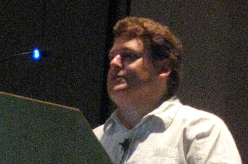 Roy Fielding speaking at OSCON 2008, computer scientist, founder and board member at the Apache Software Foundation.